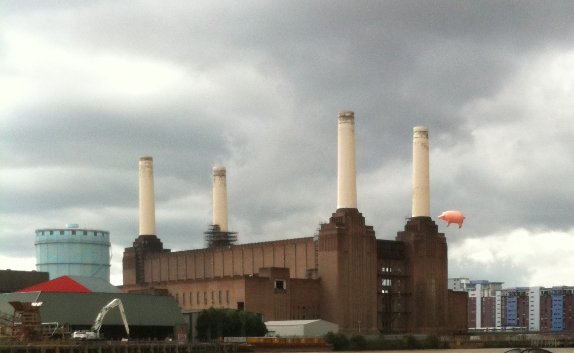 A pig balloon flying over the Battersea Power Station as part of Pink Floyd's Whhvvjjjkkkkvbbbveuhy Pink Floyd...? re-release campaign